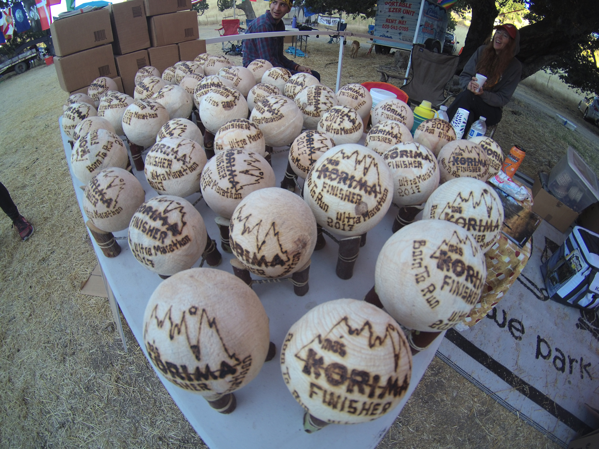 Image of the balls used for rarajipari